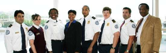 Transportation Security Administration staff (selction), an agency with the Department of Homeland Security